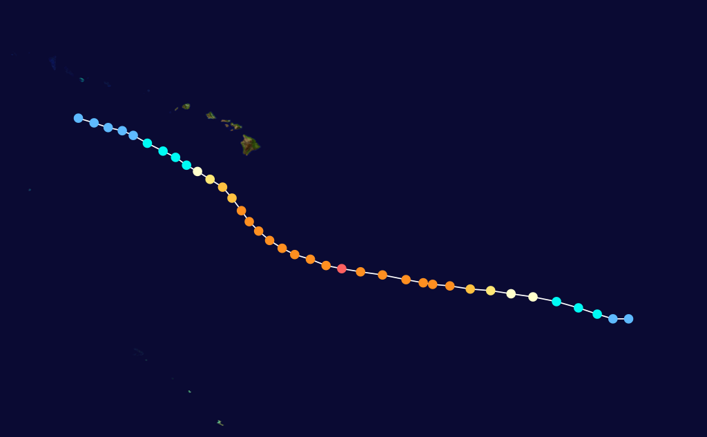 Hurricane Emilia (1994) track. Uses the color scheme from the Saffir-Simpson Hurricane Scale.